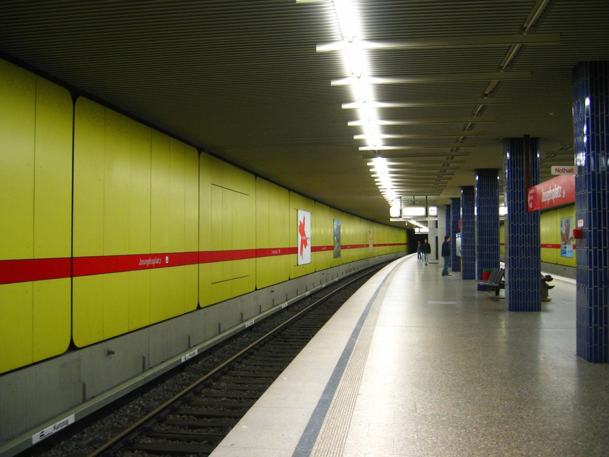 Munich subway station Josephsplatz